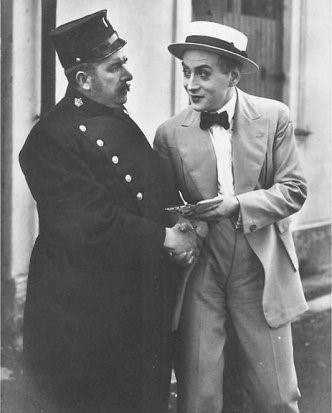 Swedish actors Josua Bengtson (left) and Gösta Ekman (senior) (right) in the 1920 silent film Bomben